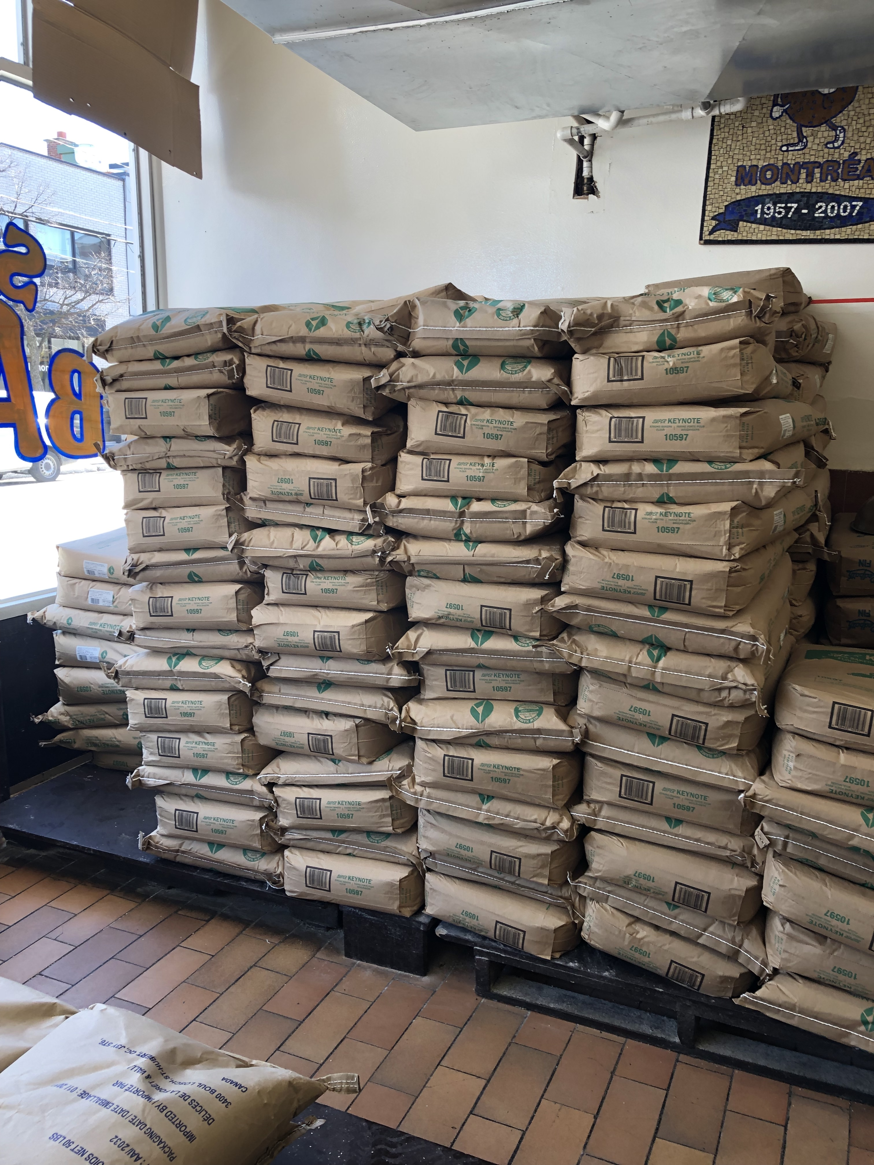 In the front of the bakery, by the window, piles of flour bags are displayed.